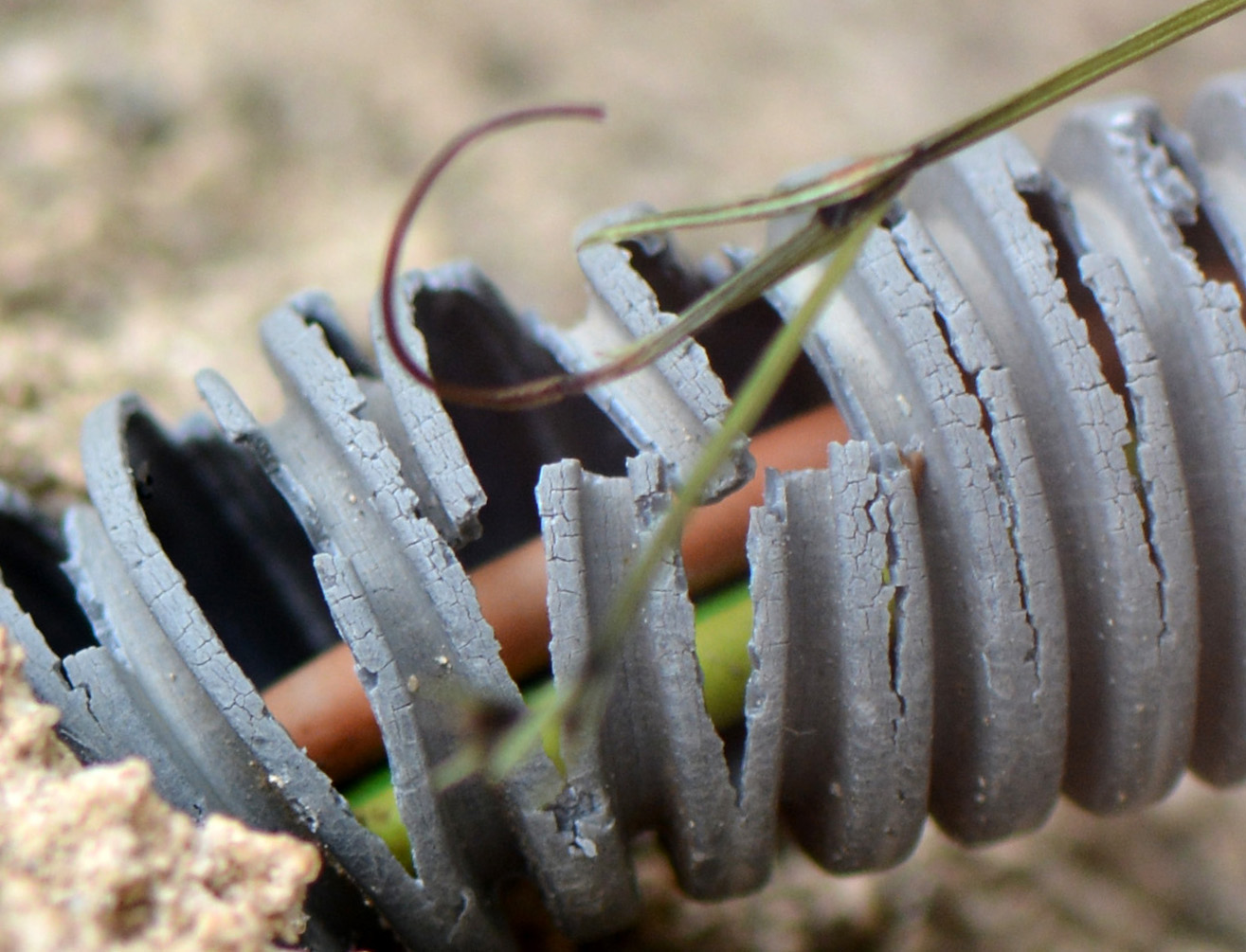 Air corrosion of a recent plastic sheath (PVC) exposed to air, wind, ultraviolet solar radiation and bad weather (Pyrenees)